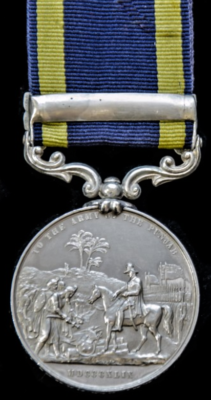 Campaign medal awarded for service in the Punjab campaign of 1848-49, also called the Second Anglo-Sikh War.